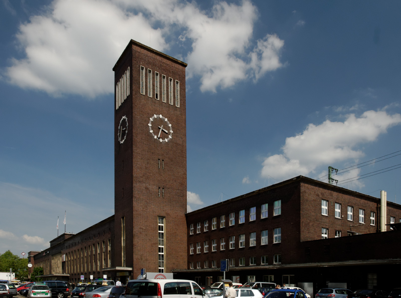 Hauptbahnhof, Konrad-Adenauer-Platz 14 in Düsseldorf-Stadtmitte, Germany This is a photograph of an architectural monument.